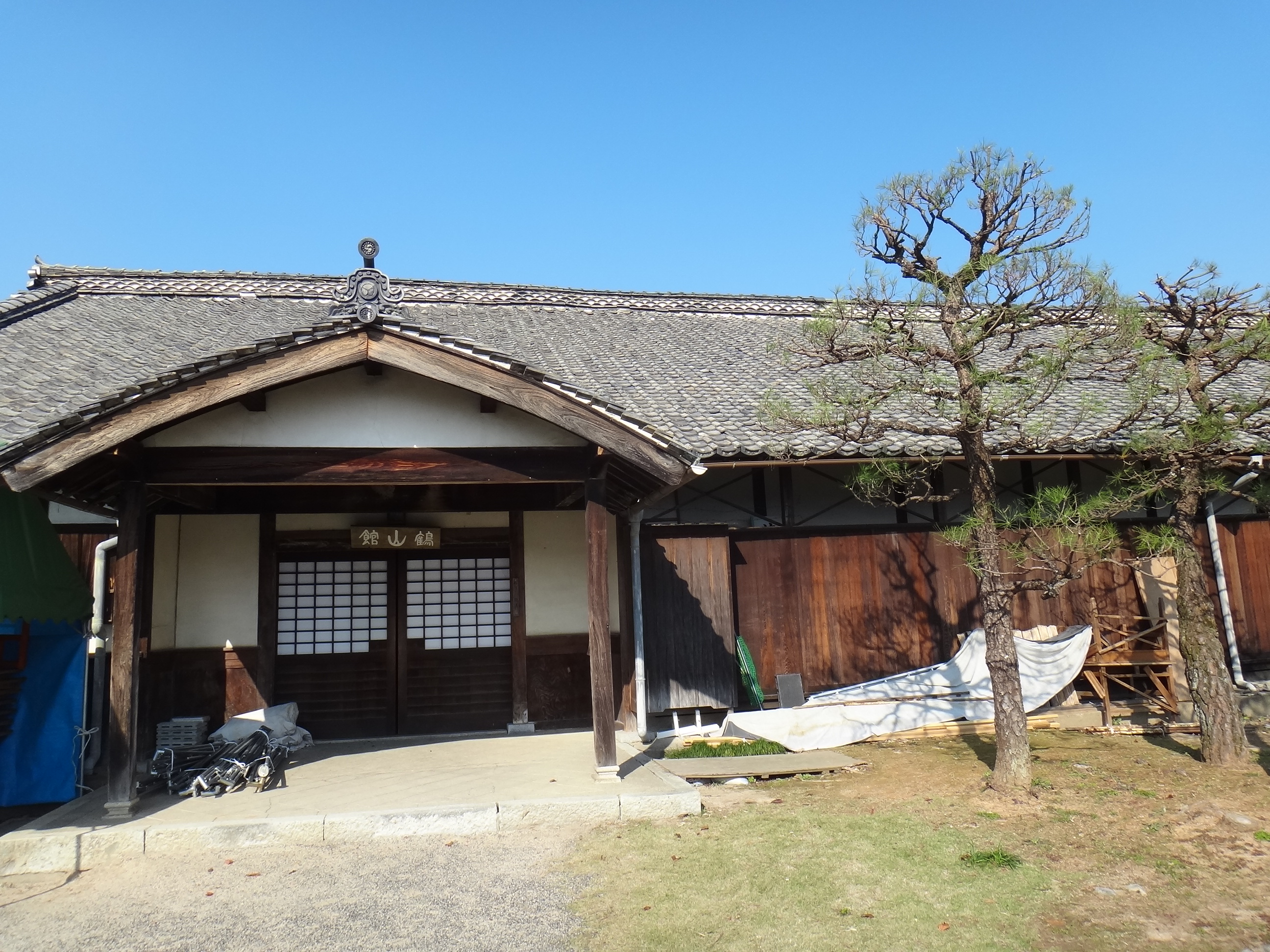 Okayama pref,Tuyama casle,Kakuzan park